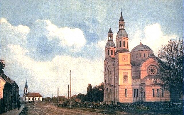 The both "Saint Elias" churches in Timișoara, Romania, 1913